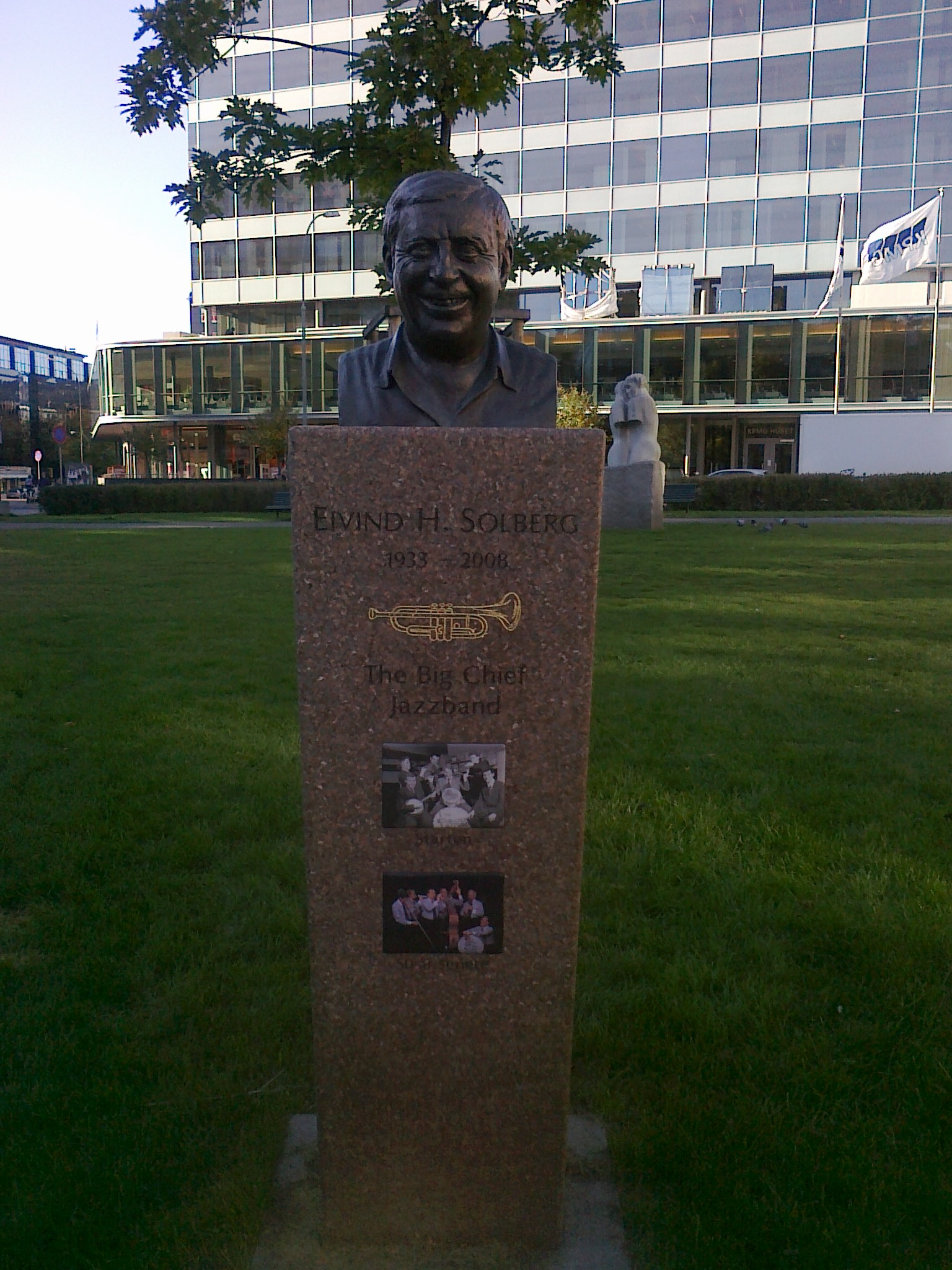 Monument dedicated to jazz musician Eivind Solberg.